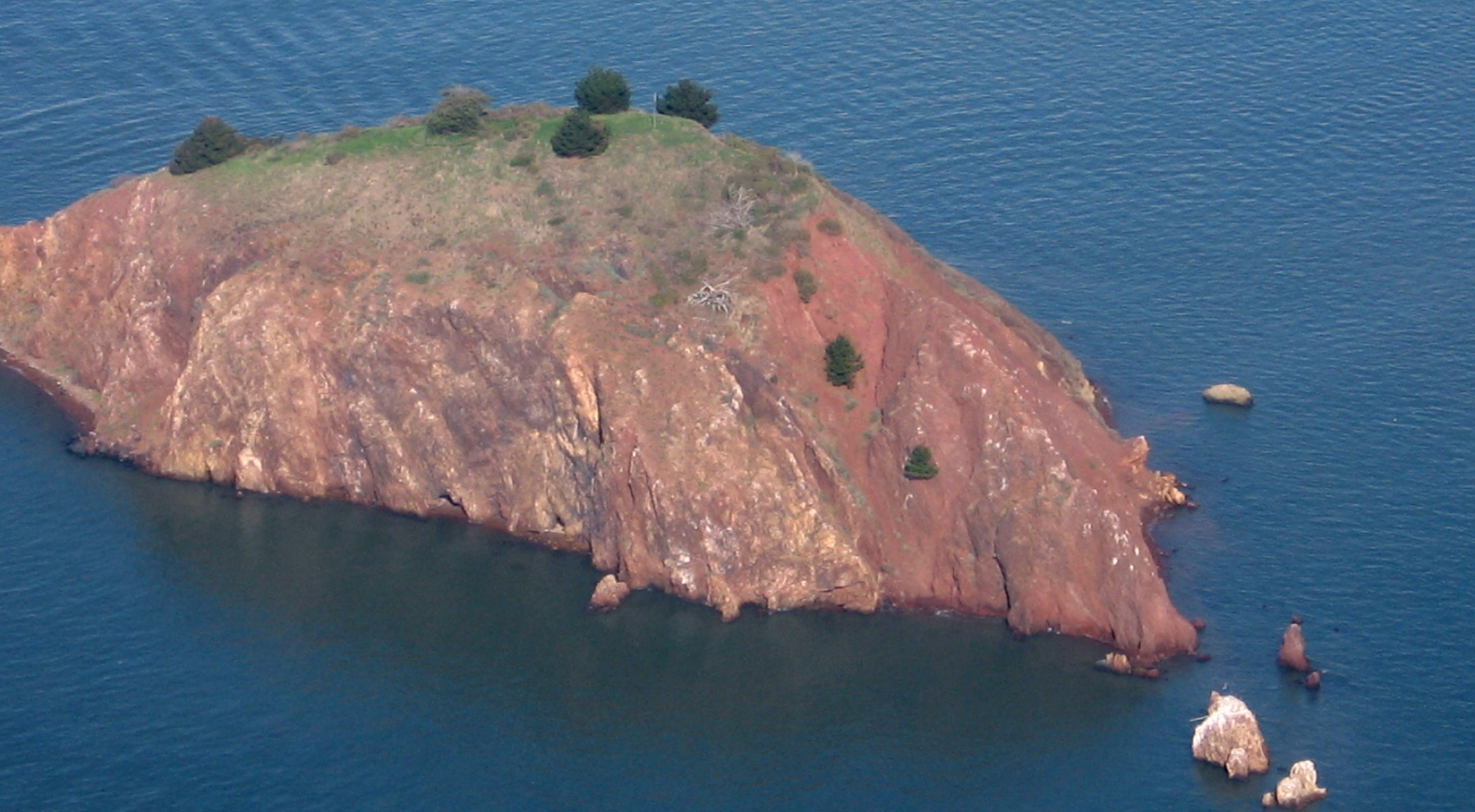 A closeup Red Rock Island in the San Francisco Bay.